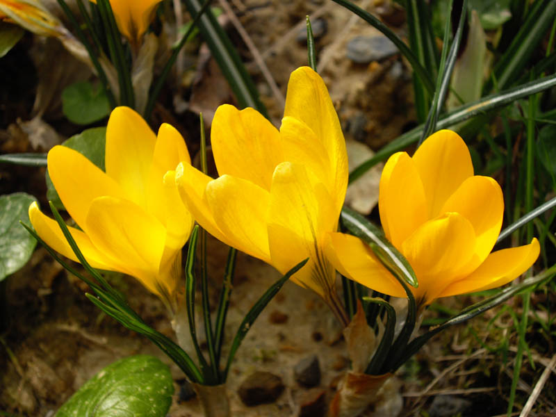 Crocus 'Mammoth Yellow' (Crocus flavus × Crocus angustifolius)